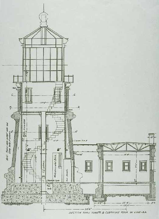 Blueprint of Split Rock Lighthouse.